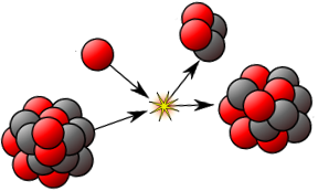 Part of CNO-reaction chaing diagram, made just to be illustrative for nuclear reactions in general.